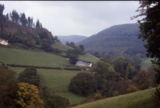 Valley of the River Eglwyseg. This looks north over the valley from Hendrie towards Pen y clawdd Farm, and the wooded top covered by Foel Plantation